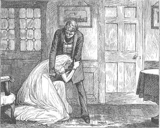 Great Expectation, chapter 49, Miss Havisham begging to be forgiven, by F.A. Fraser